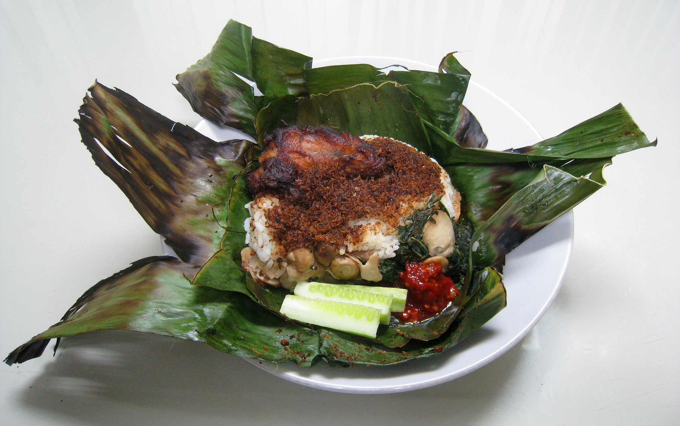 Nasi bakar, a seasoned and spiced rice cooked (grilled) inside banana leaf, served with ayam goreng (fried chicken) with mushroom, vegetables, and spicy chilli sambal. Jakarta, Indonesia.